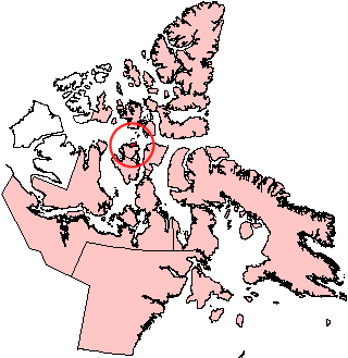 Map shows location of Russell Island, Nunavut.